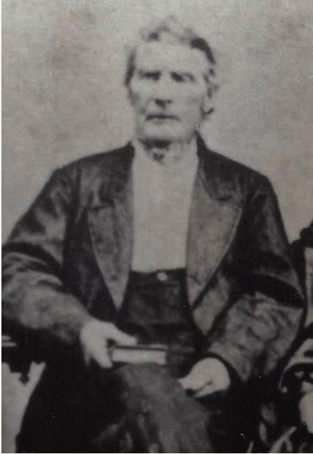 The surveyor James Thompson in the 1860s. The picture is courtesy of the Randolph Society, according to whom there are No known copyright restrictions on this picture. This appears reasonable given that Thompson died in 1872.